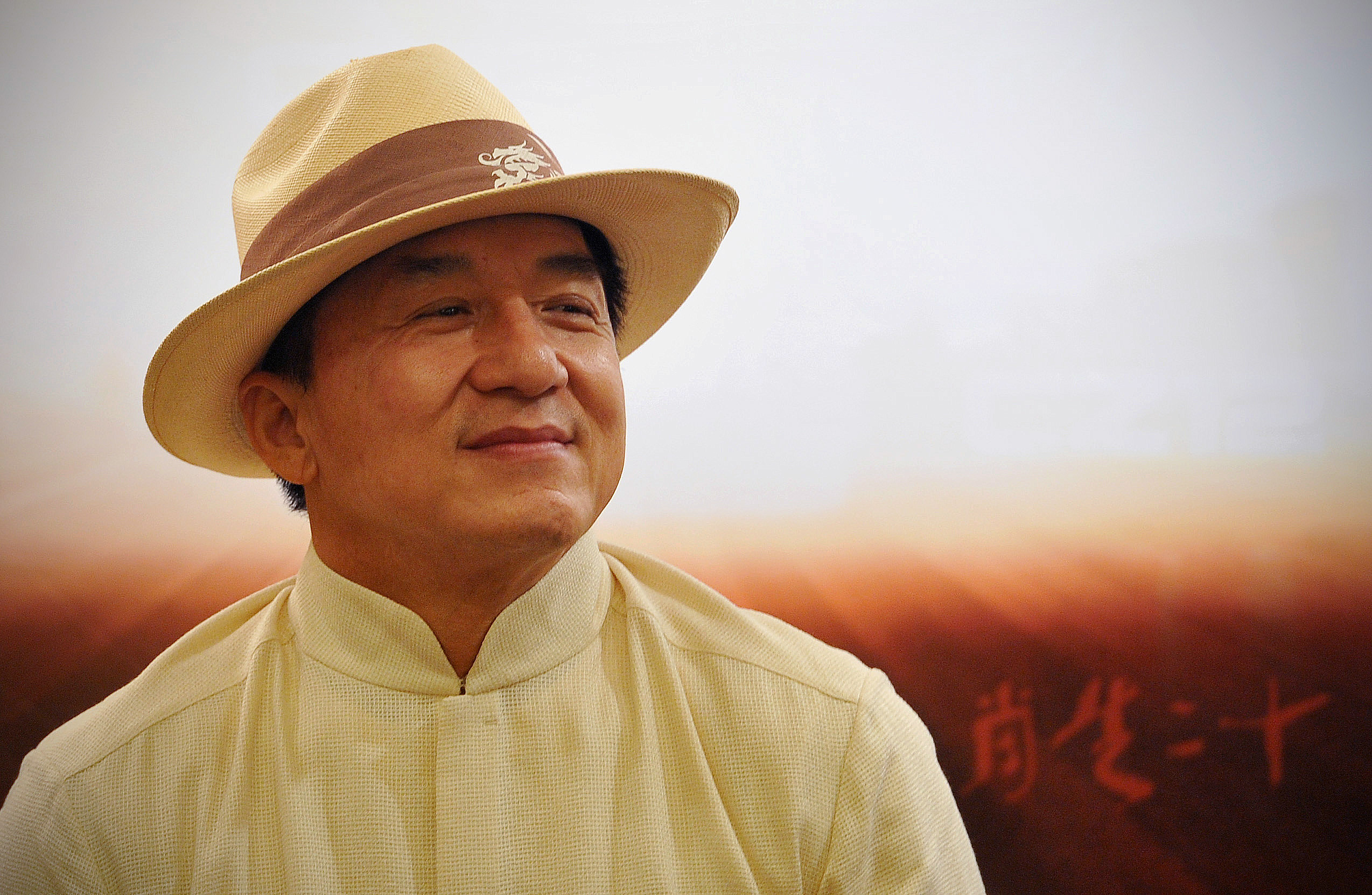 Jackie Chan in Kuala Lumpur for Press conference "CZ12" Promo Tour at a hotel in Kuala Lumpur December 18, 2012. where he was flanked by two young co-stars, newcomer actresses Zhang Lanxin and Yao Xintong.